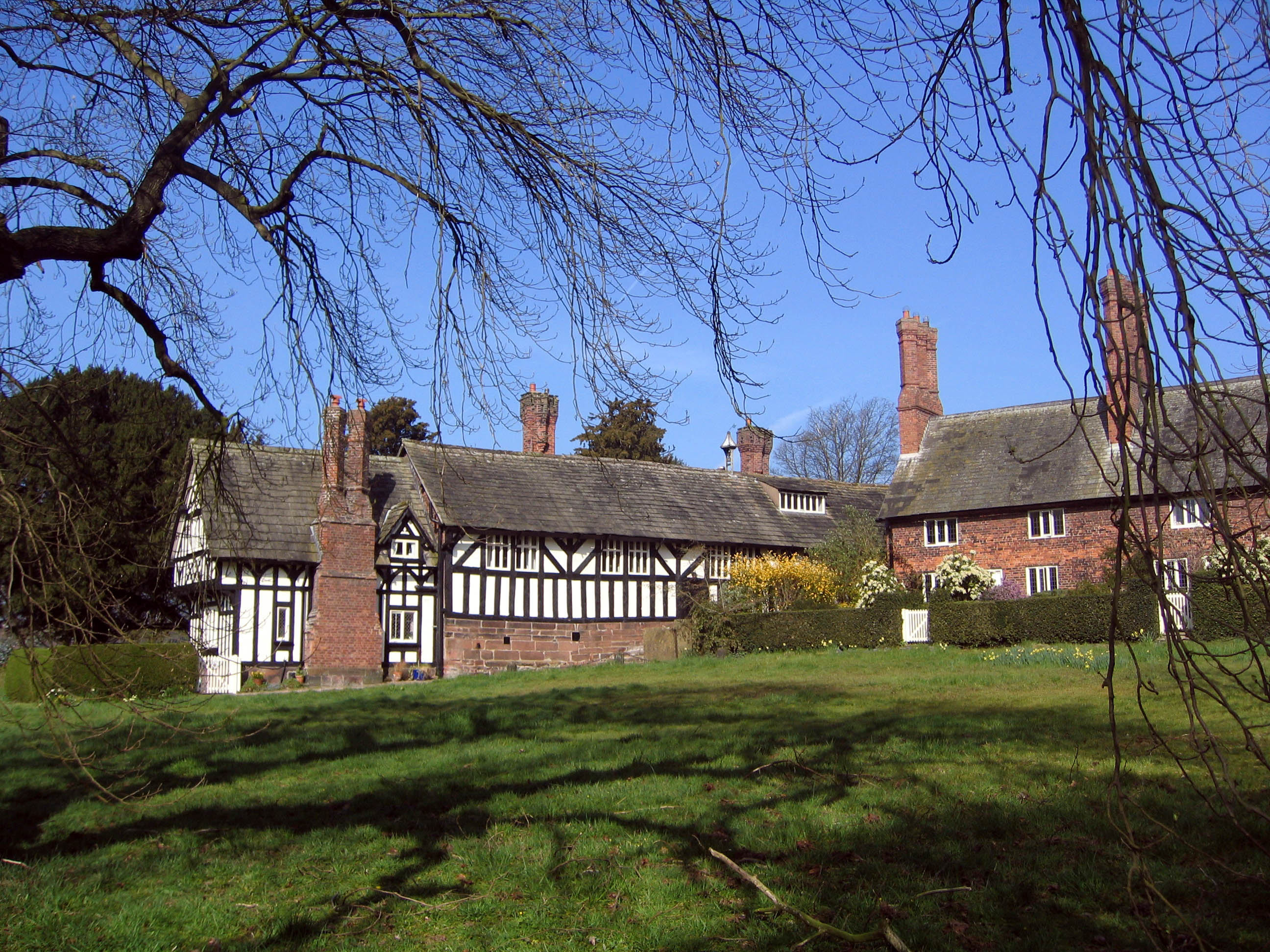 Photograph taken by me on 7 April 2007. This view can be seen briefly in tv episode "The Speckled Band" (1984) from the series The Adventures of Sherlock Holmes starring Jeremy Brett as Sherlock Holmes.